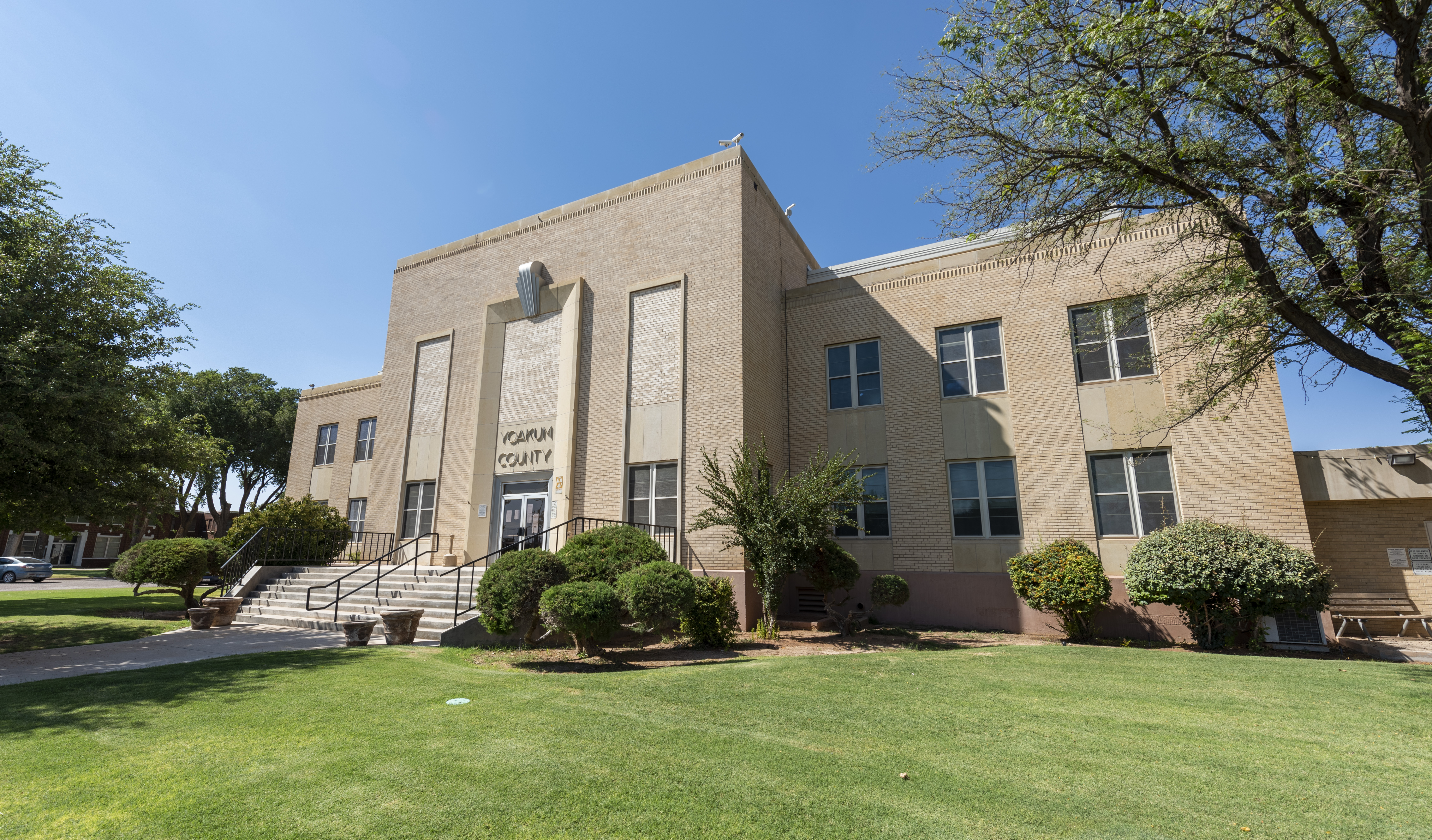 Photograph of the Yoakum County Courthouse in Plains, Texas. Image taken in August 2020.